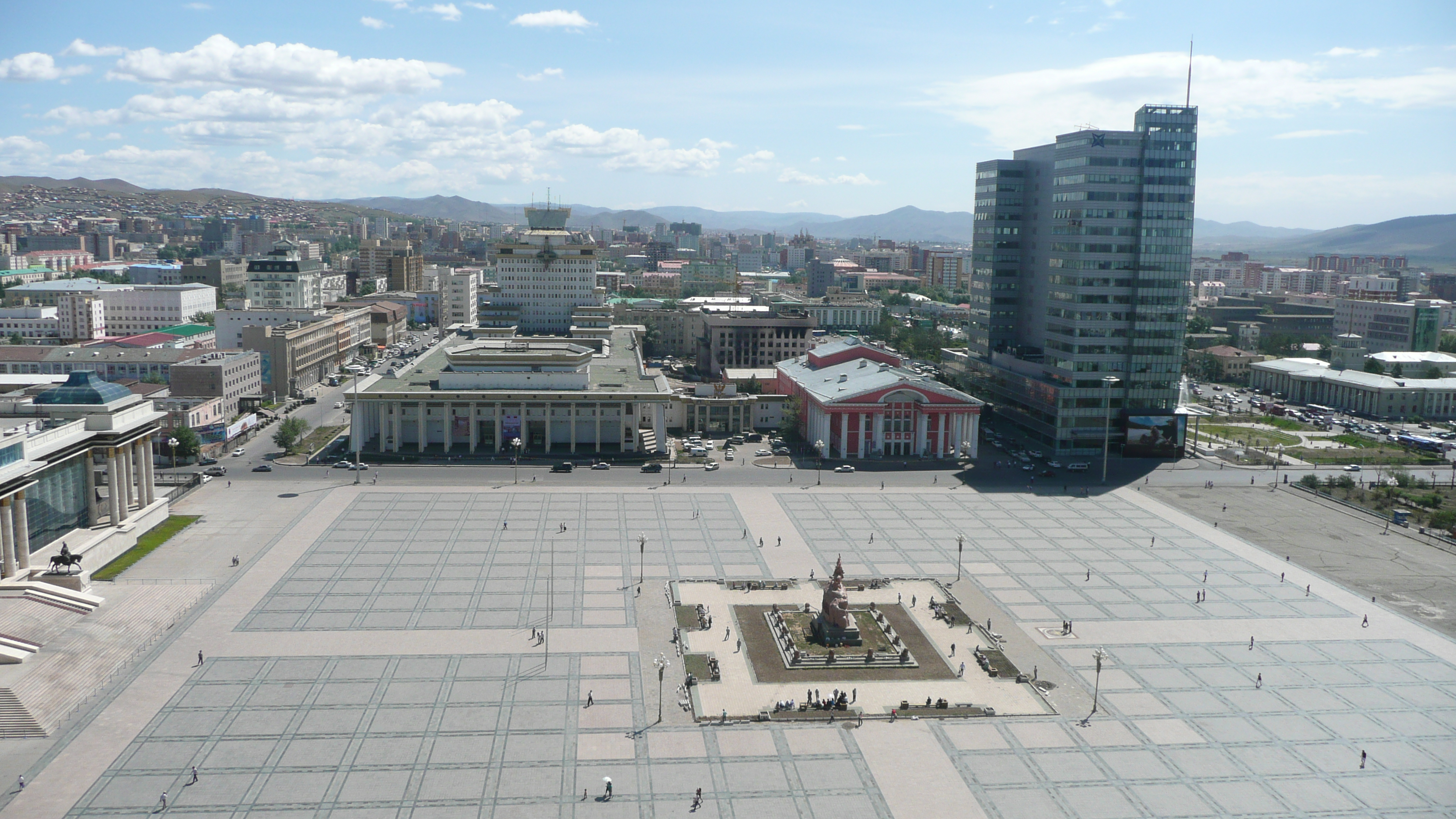 Panorama of Ulan Bator. View from Chingis Khaan square toward East.